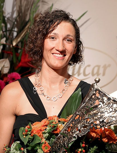 Jolanta Ogar, sailor at 2012 Summer Olympics (POL) and 2016 Summer Olympics (AUT)